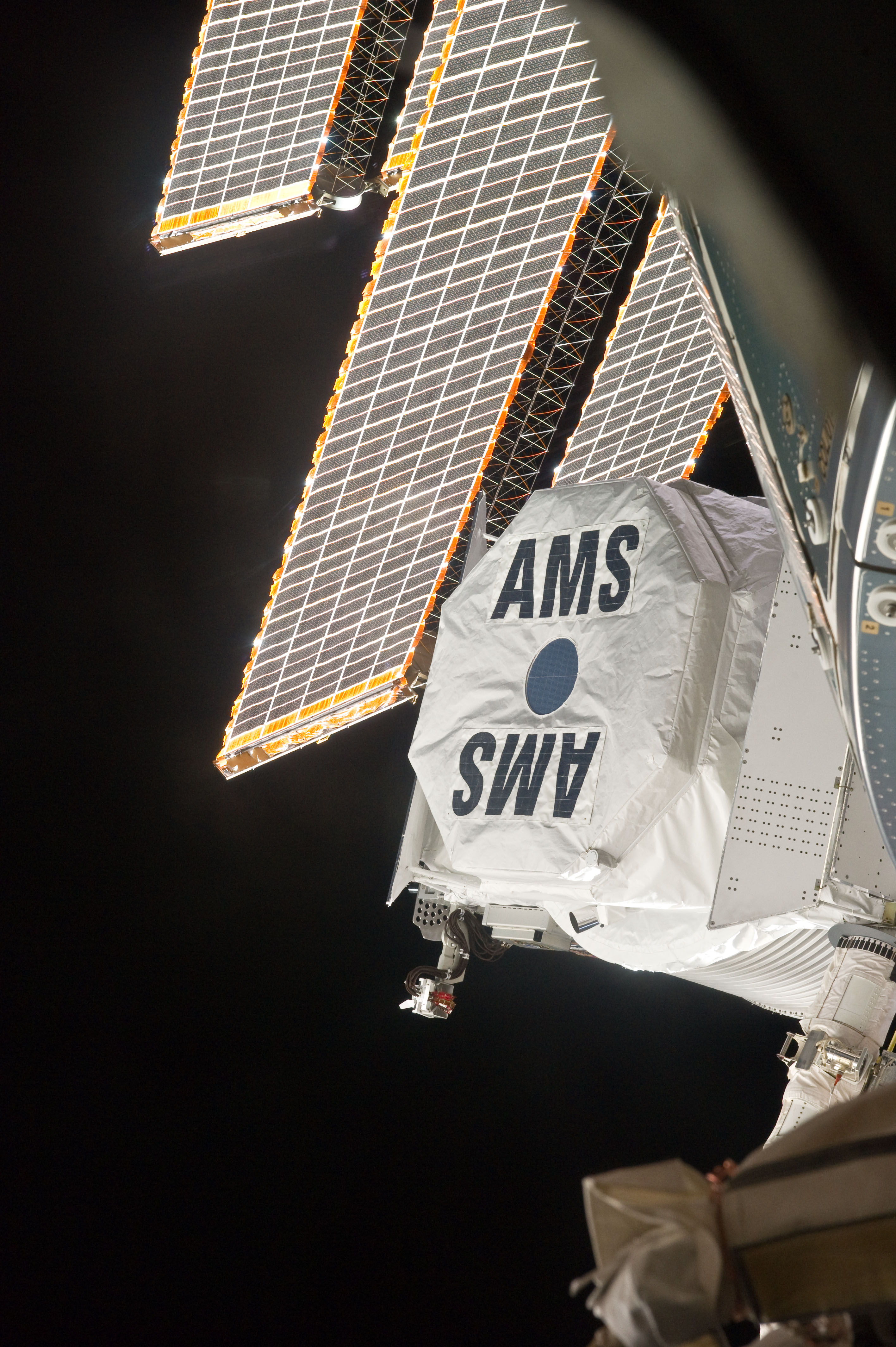 In the grasp of space shuttle Endeavour's robotic Canadarm, the Alpha Magnetic Spectrometer-2 (AMS) is moved from Endeavour's payload bay to be handed off to the International Space Station's Canadarm2 for installation on the station's starboard truss.